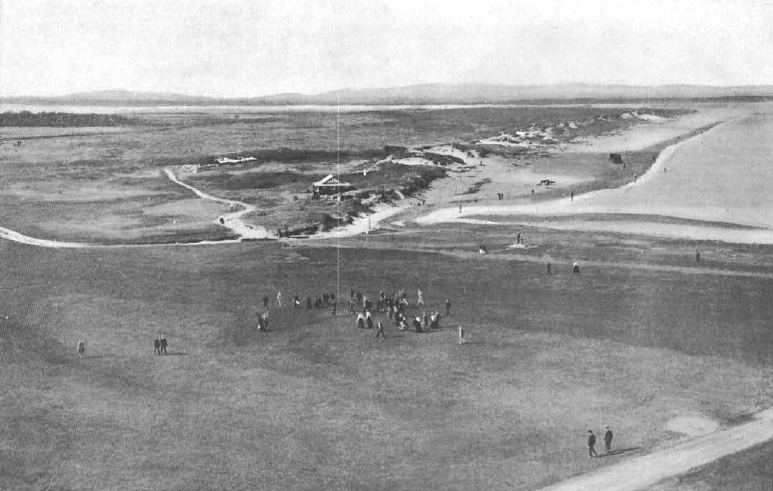 Old Course, St Andrews, 1901